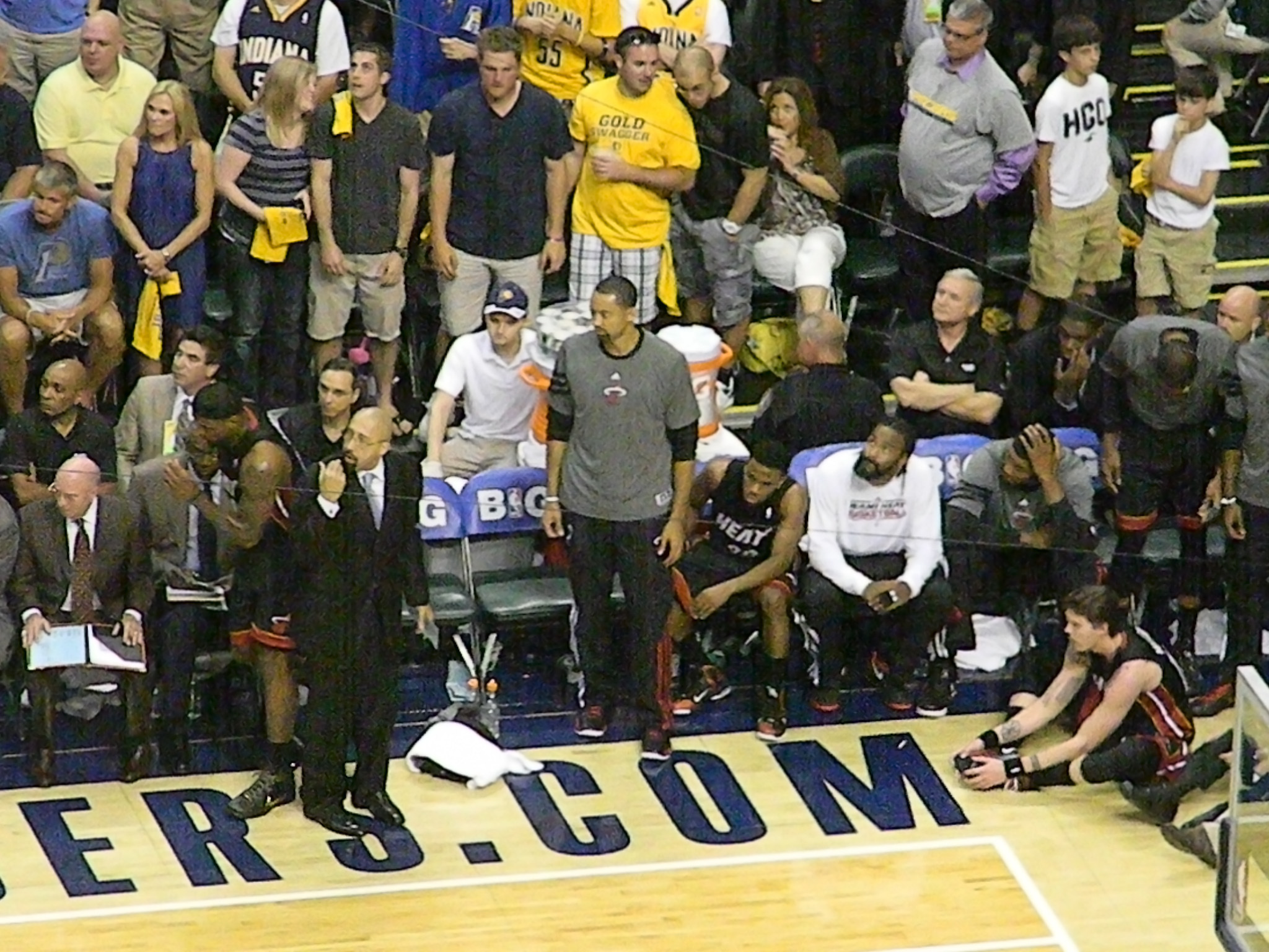 Playoffs on May 20th